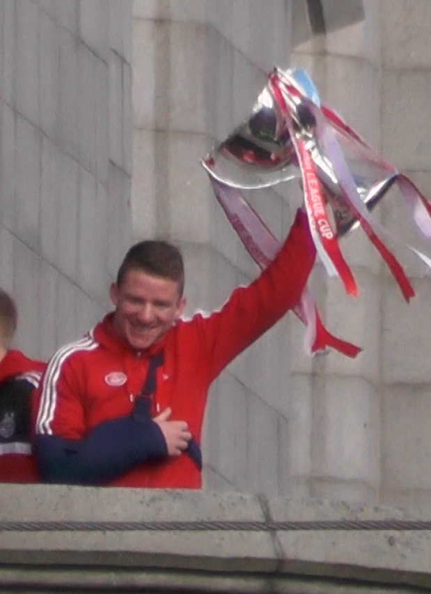 Aberdeen's Jonny Hayes holds the Scottish League Cup 2014